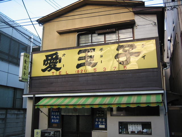 This shop is famous for serving them sweet. Also in the Ueno area.Taiwanese Grass Jelly